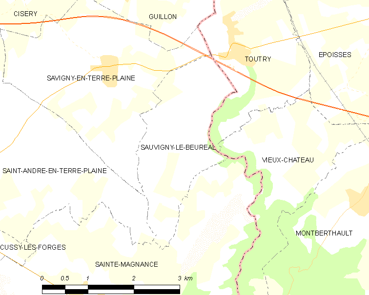 Map of French municipality Sauvigny-le-Beuréal